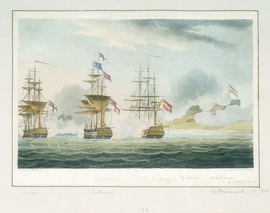 Capture of the Pomona by Anson & Arethusa off Havannah, 23 Aug 1806